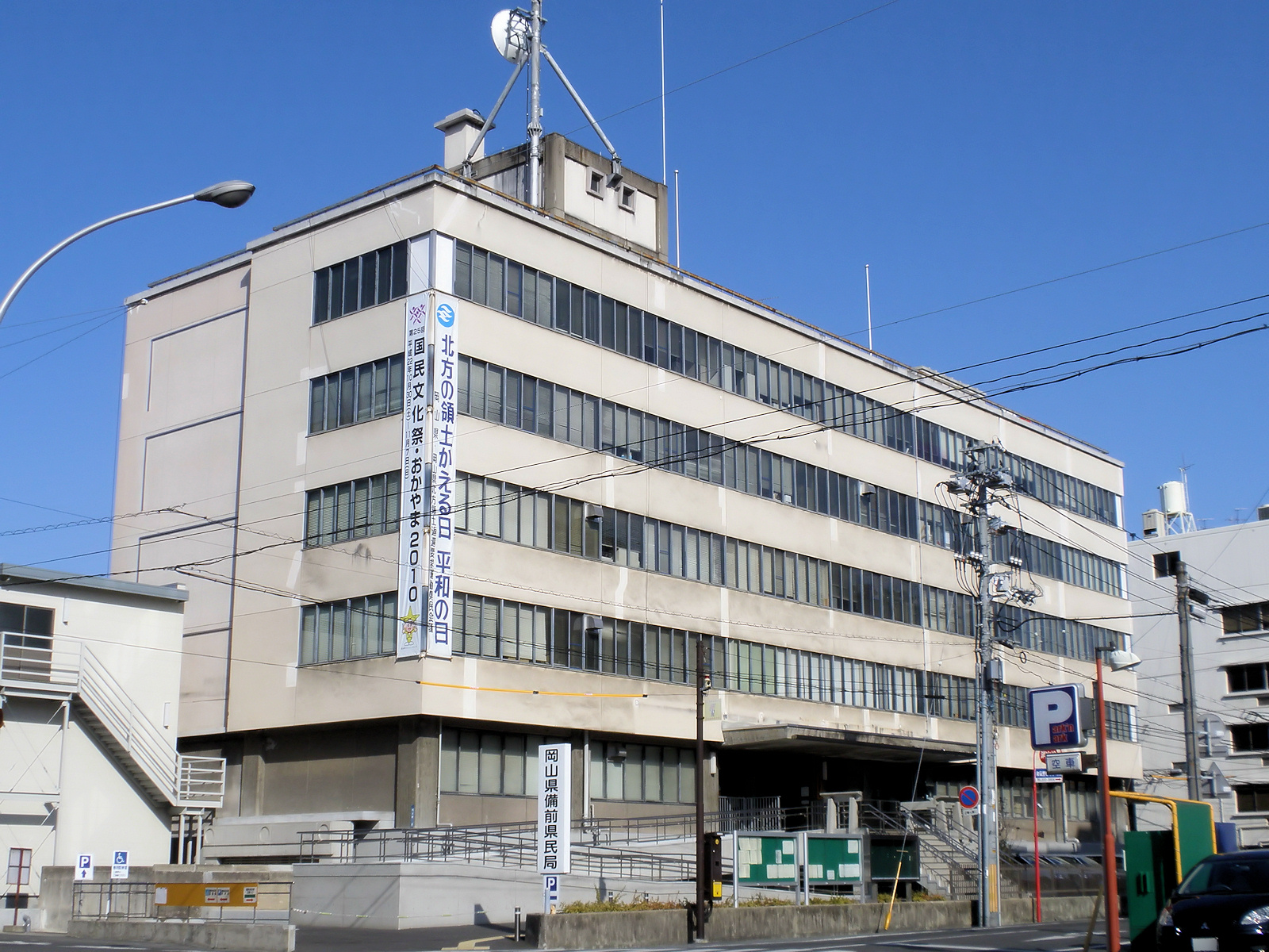 Okayama prefecture Bizen general service bureau